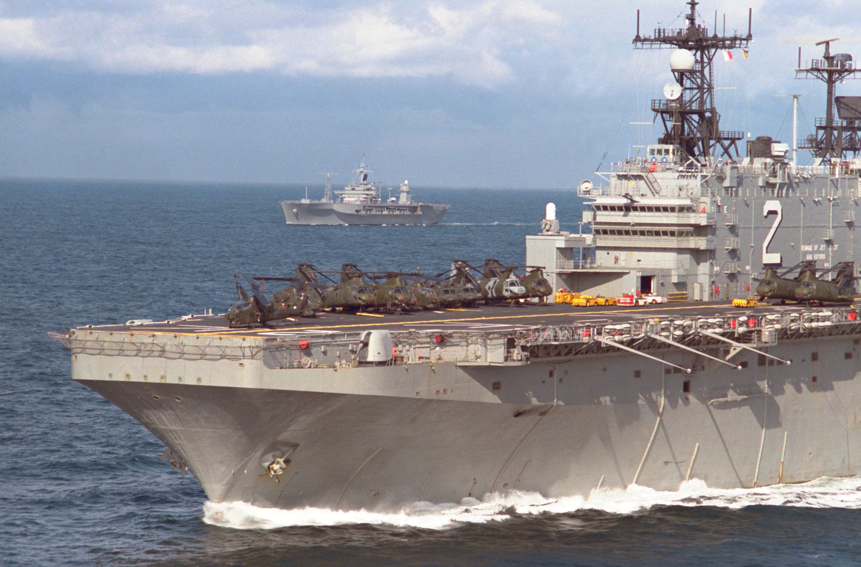 U.S. Marine Corps helicopters are parked on the forward flight deck of the U.S. Navy amphibious assault ship USS Saipan (LHA-2) in the North Atlantic Ocean during the NATO exercise "Northern Wedding '86". The amphibious command ship USS Mount Whitney (LCC-20) is underway in the background.